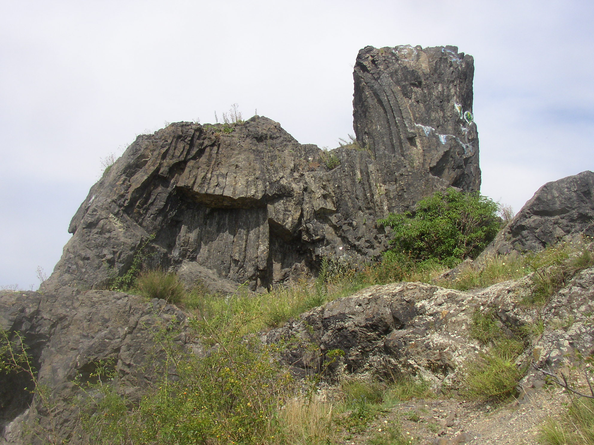 Basalt rock called Kočka (Cat) on top of Sovice hill (271 m) near Litoměřice, Czech Republic.